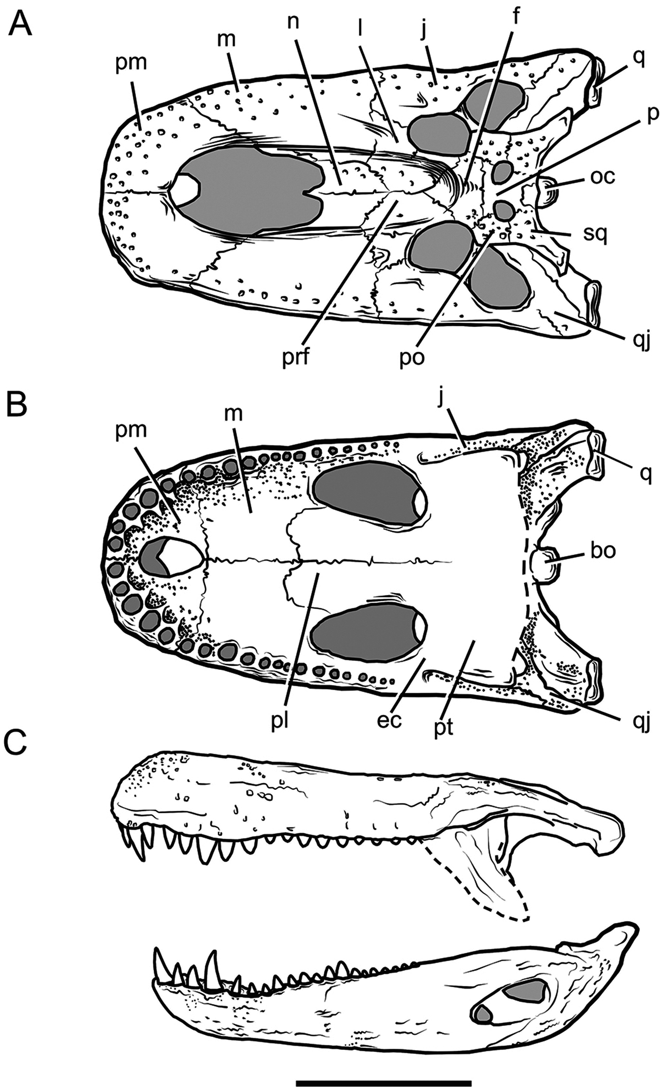 Purussaurus brasiliensis skull anatomy. (A) P. brasiliensis UFAC 1403 skull in dorsal view. (B) P. brasiliensis UFAC 1403 skull in ventral view. (C) P. brasiliensis reconstruction skull UFAC 1403 and associated mandible UFAC 1118 with teeth in lateral view. Scale bar: 50 cm. Abbreviations: bo, basioccipital; ec, ectopterygoid; f, frontal; j, jugal; l, lacrimal; m, maxilla; n, nasal; oc, occipital condyle; p, parietal; pl, palatine; pm, premaxilla; po, postorbital; prf, prefrontal; pt, pterygoid; q, quadrate; qj, quadratojugal; sq, squamosal.